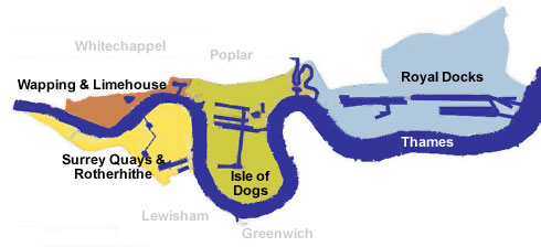 Areas of the London Docklands